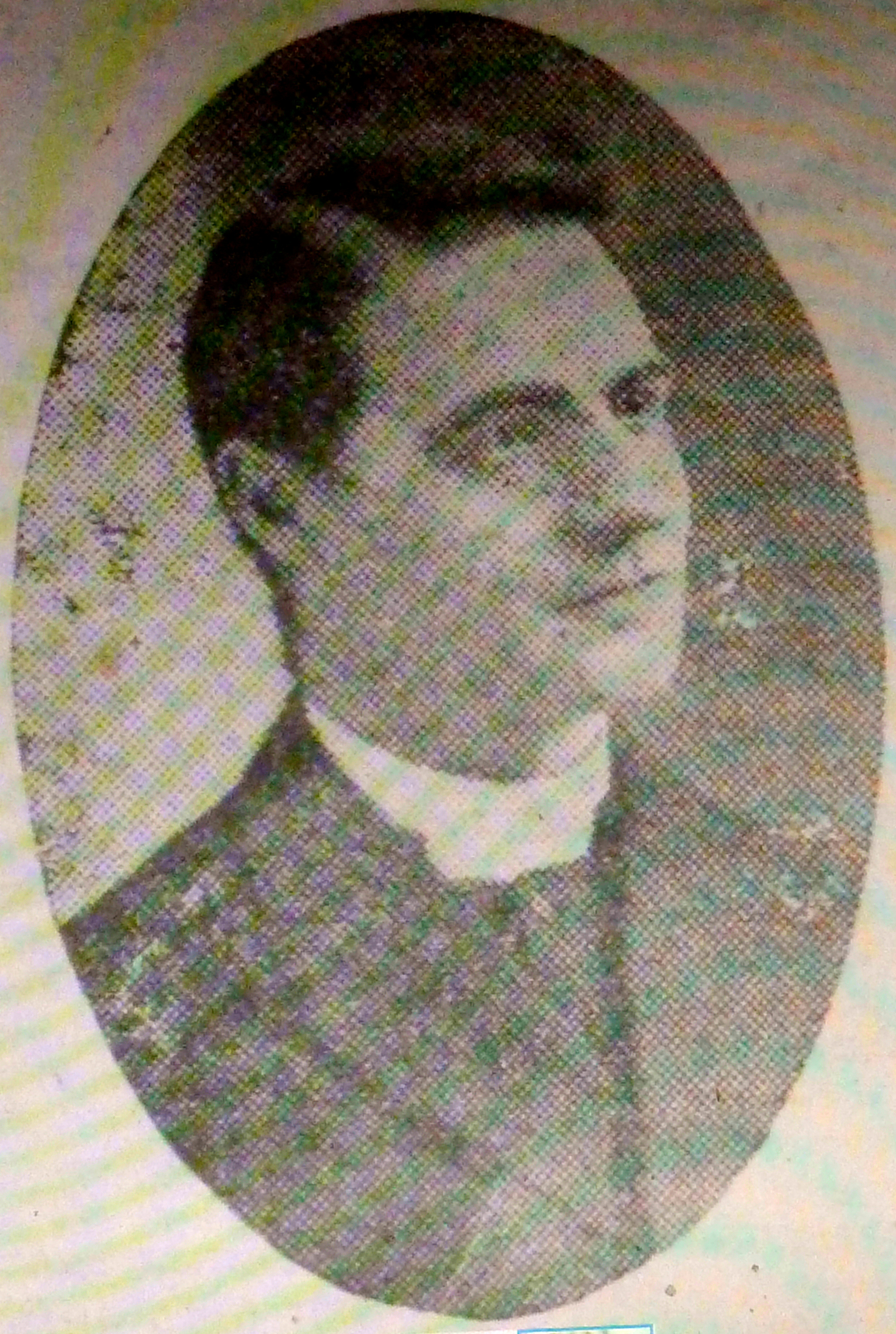 Newspaper photograph of Reverend Joseph Miller BD, who was vicar of the church of St Mark, Old Leeds Road, Huddersfield, West Yorkshire, England, from 1929 to 1931. He was formerly a Congregationalist minister who converted to Anglicanism shortly before taking up the living at St Mark's.